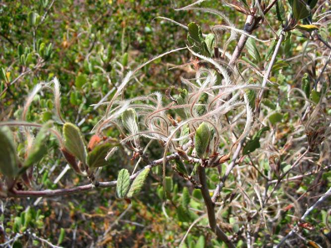 Cercocarpus betuloides — Mountain mahogany and Birch leaf mountain mahogany, flower. • On the Grotto trail at Circle X Ranch Park in the Santa Monica Mountains National Recreation Area, Ventura County, California.